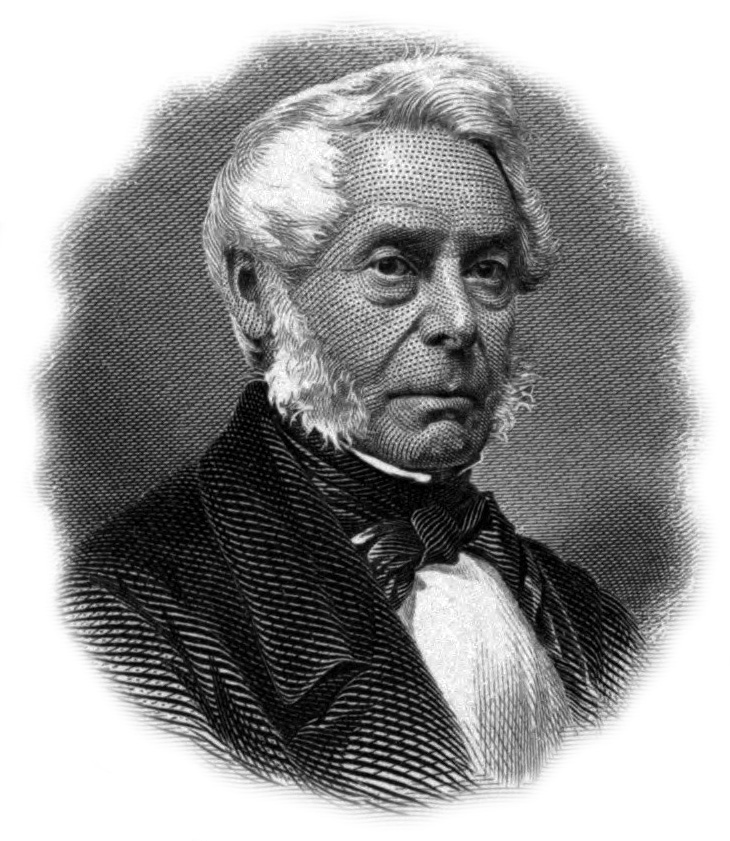 Engraving of William Hamilton Merritt